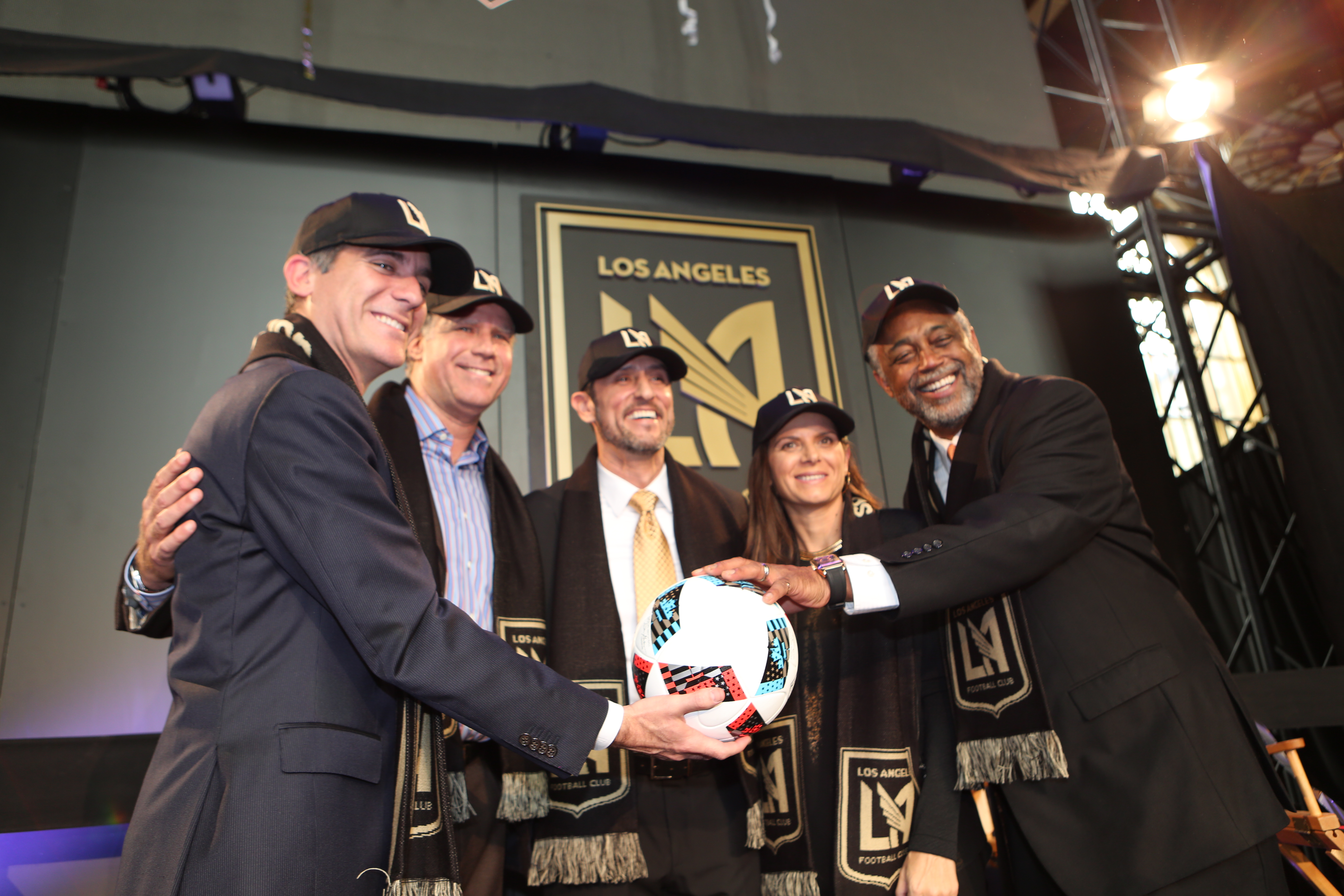 Mayor Garcetti unveiled the new logo and colors of Los Angeles Football Club.